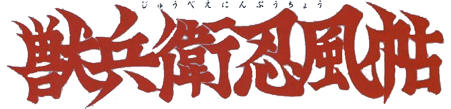 The logo of Ninja Scroll (獣兵衛忍風帖 Jūbē Ninpūchō).